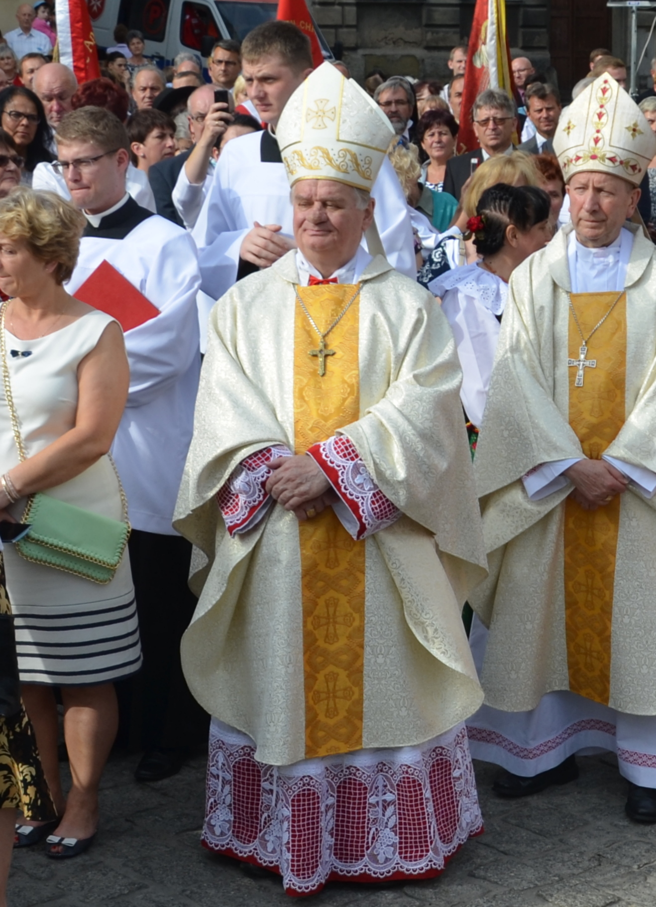 Bischof Tadeusz Rakoczy